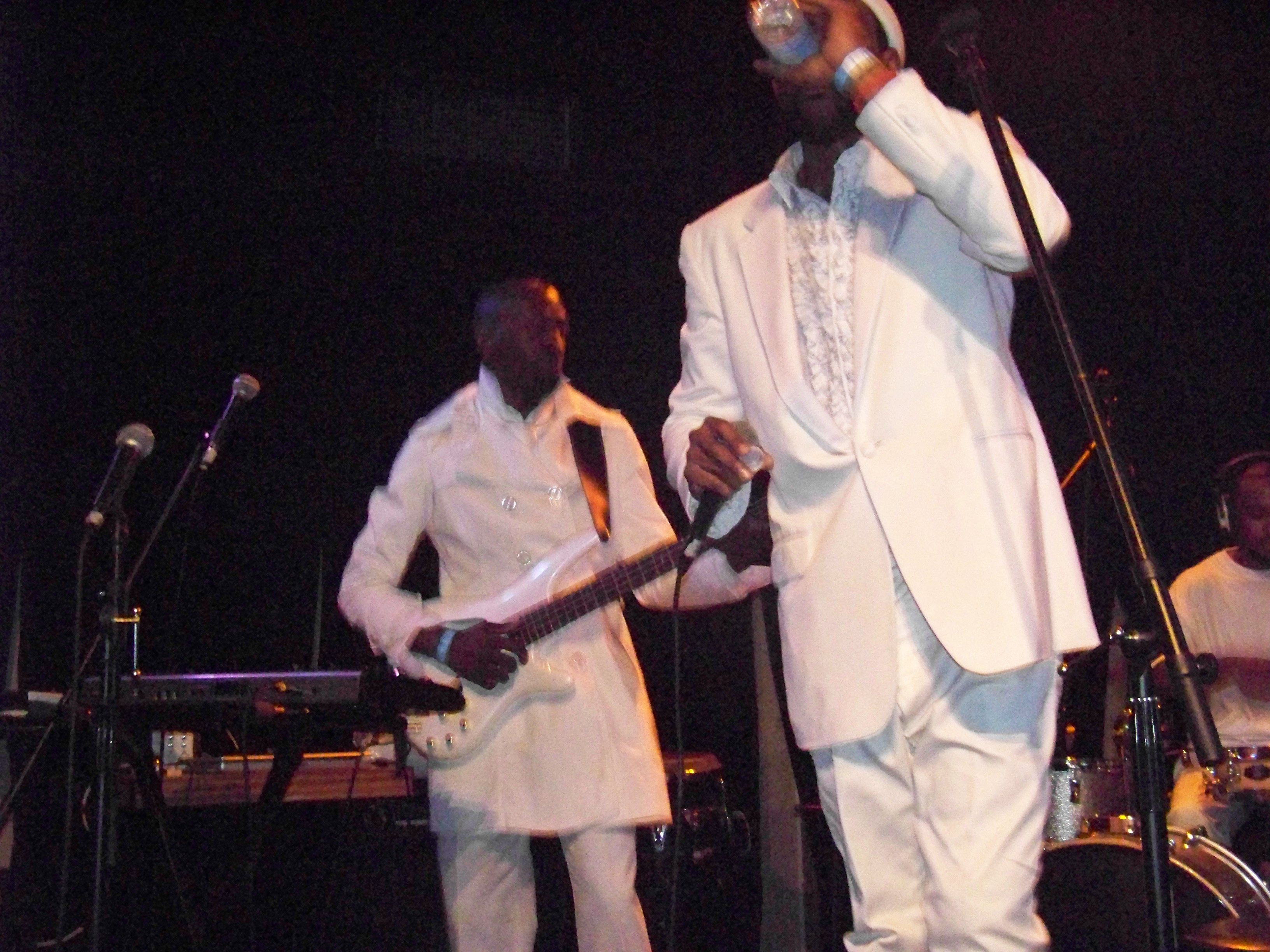 Platinum Pied Pipers @ Drom in the Village.